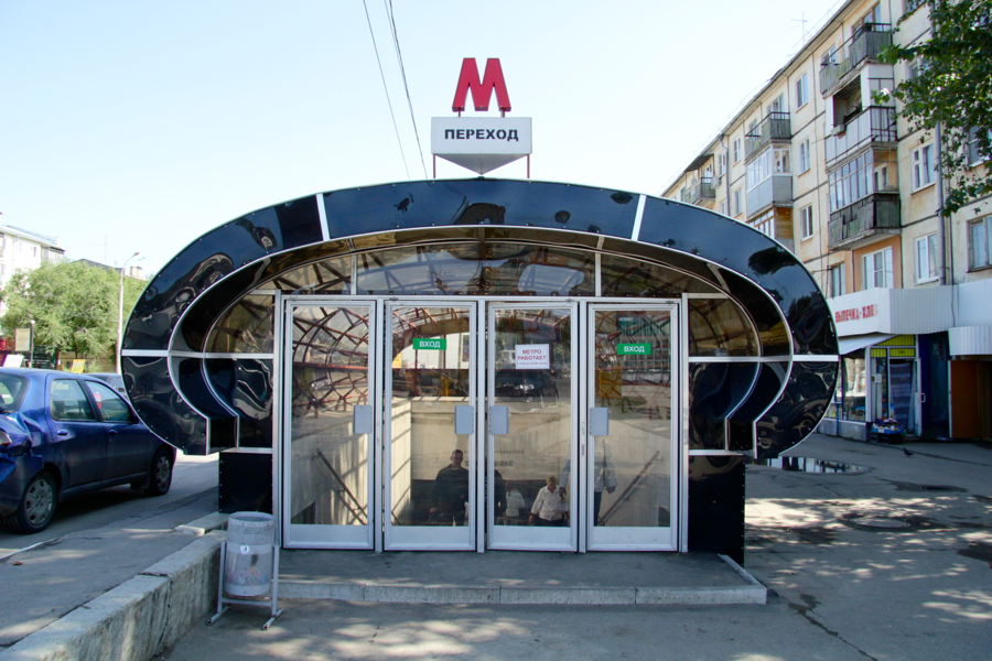 Samara Metro.